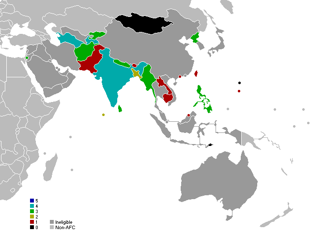 4 — India, Tajikistan, Turkmenistan 3 — Nepal ...... 2 — Bangladesh, Maldives 1 — Cambodia ...... Never qualified — Mongolia, Northern Mariana Islands, Timor Leste Ineligible — South Korea ...... Not an associate member of AFC Qualified for 2014: Maldives(Host), Afghanistan, Burma, Kyrgyzstan, Laos, Palestine, Philippines, Turkmenistan.